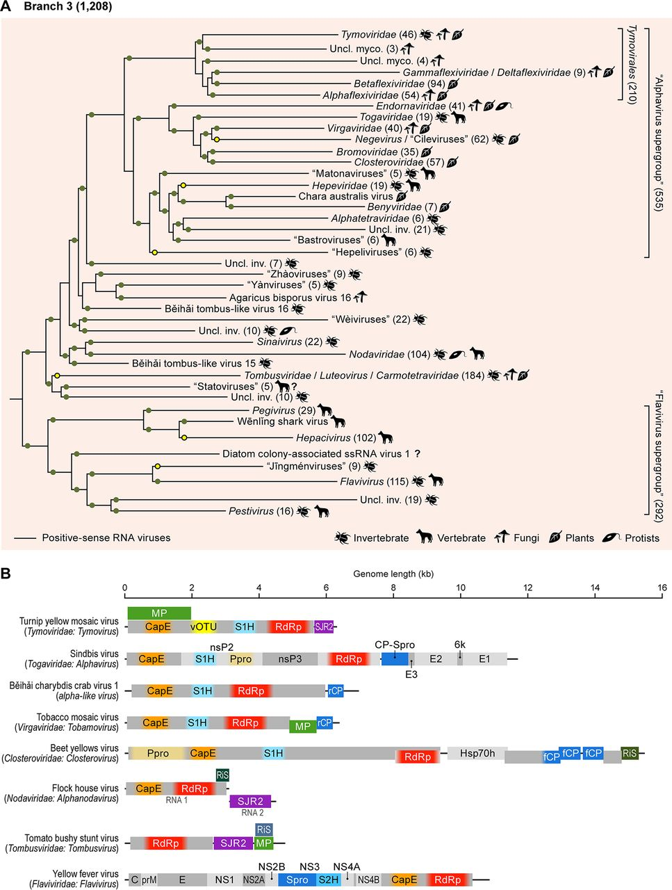 Branch 3 of the RNA virus RNA-dependent RNA polymerases (RdRps): alphavirus superfamily and radiation of related tombusviruses, nodaviruses, and unclassified viruses and flavivirus supergroup. (A) Phylogenetic tree of the virus RdRps showing ICTV-accepted virus taxa and other major groups of viruses. Approximate numbers of distinct virus RdRps present in each branch are shown in parentheses. Symbols to the right of the parentheses summarize the presumed virus host spectrum of a lineage. Green dots represent well-supported (≥0.7) branches, whereas yellow dots correspond to weakly supported branches. Inv., viruses of invertebrates (many found in holobionts, making host assignment uncertain); myco., mycoviruses; uncl., unclassified. (B) Genome maps of a representative set of branch 3 viruses (drawn to scale) showing color-coded major conserved domains. Where a conserved domain comprises only a part of the larger protein, the rest of this protein is shown in light gray. The locations of such domains are approximated (indicated by fuzzy boundaries). C, nucleocapsid protein; CapE, capping enzyme; CP-Spro, capsid protein-serine protease; E, envelope protein; fCP, divergent copies of the capsid protein forming filamentous virions; Hsp70h, Hsp70 homolog; MP, movement protein; NS, nonstructural protein; nsP2 to nsP3, nonstructural proteins; Ppro, papain-like protease; prM, precursor of membrane protein; rCP, capsid protein forming rod-shaped virions; RiS, RNA interference suppressor; S1H, superfamily 1 helicase; S2H, superfamily 2 helicase; SJR2, single jelly-roll capsid proteins of type 2; Spro, serine protease; vOTU, virus OTU-like protease; NS, nonstructural protein. Distinct hues of same color (e.g., green for MPs) are used to indicate the cases when proteins that share analogous function are not homologous.